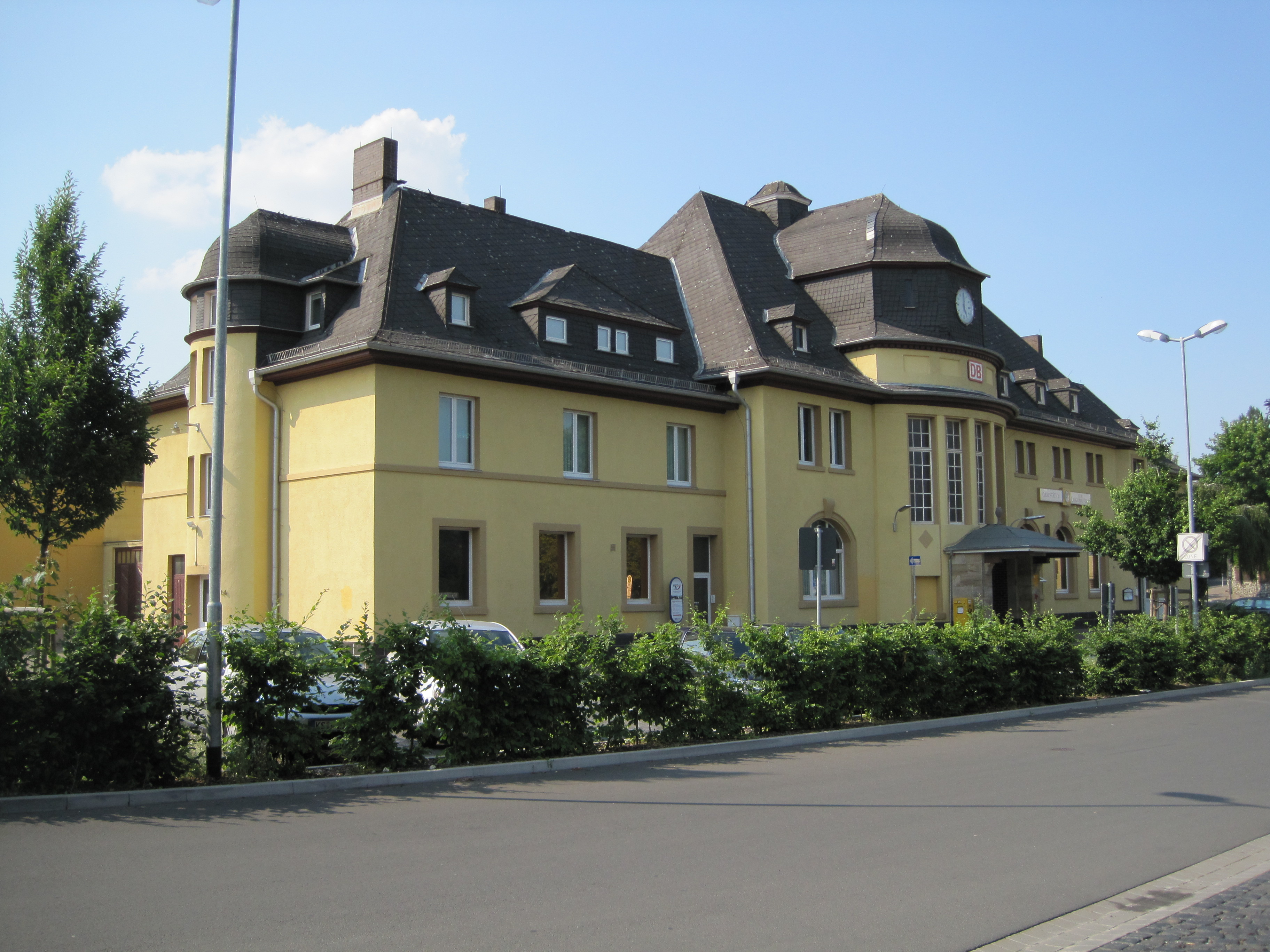 Alsfeld (Oberhess) station, Alsfeld, Germany check usage